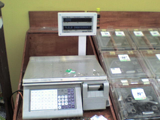 Mettler-Toledo 8450 Scale taken at HEB Torreón, Coahuila, Mexico.